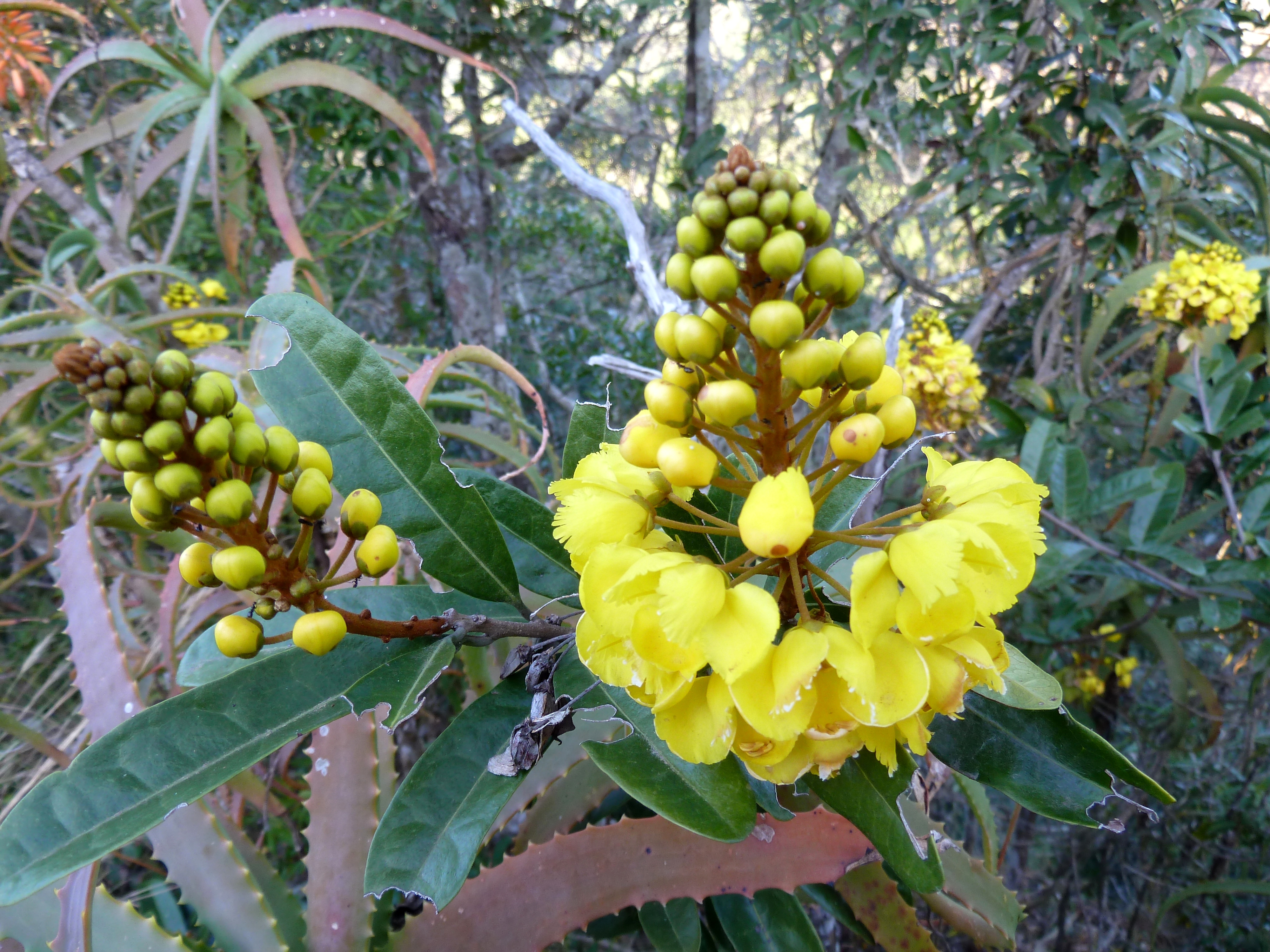 Inflorescences of a Moth fruit in the Krantzkloof Nature Reserve. They climb among an assortment of other plants on the ledge of a cliff.